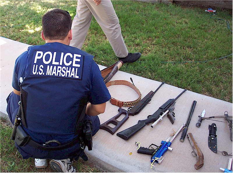 U.S. Marshal Multi-Agency Team Member with Seized Weapons during FALCON II operations